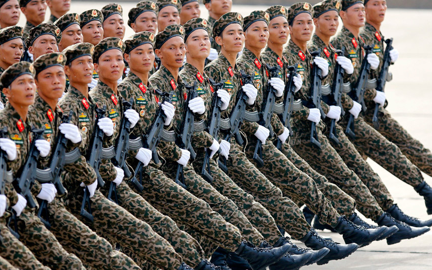 PAVN soldiers during a parade in 2015.